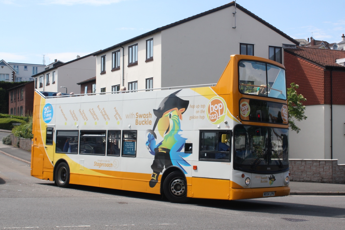 Stagecoach Devon's route 122 used to use the Totnes Road between Paignton Zoo and the bus station, but for the 2018 season the route has been changed to follow the Rail River Link open top bus route along Penwill Way and the harbour (the other end of the route in Babbacombe also takes in more visitor attractions such as the cliff railway). Fully-open ALX400 18186 (registration) MX54LPN) is turning out of Penwill Way onto the main road in Goodrington.